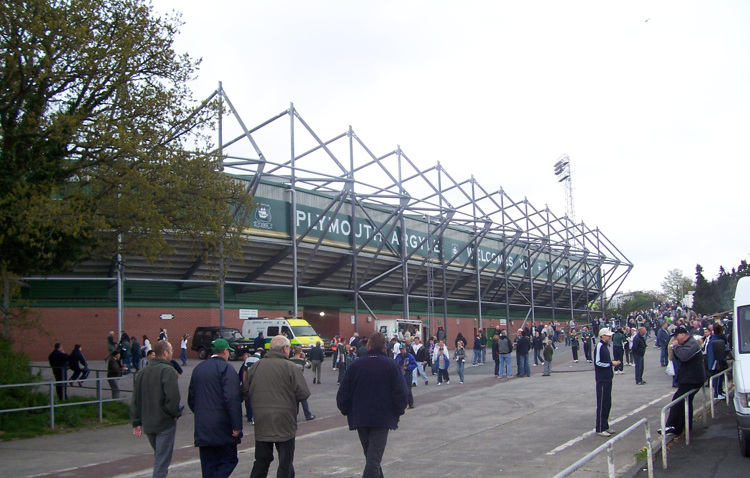 Photo of the Devonport Stand of Home Park which I took myself and have released into the public domain.